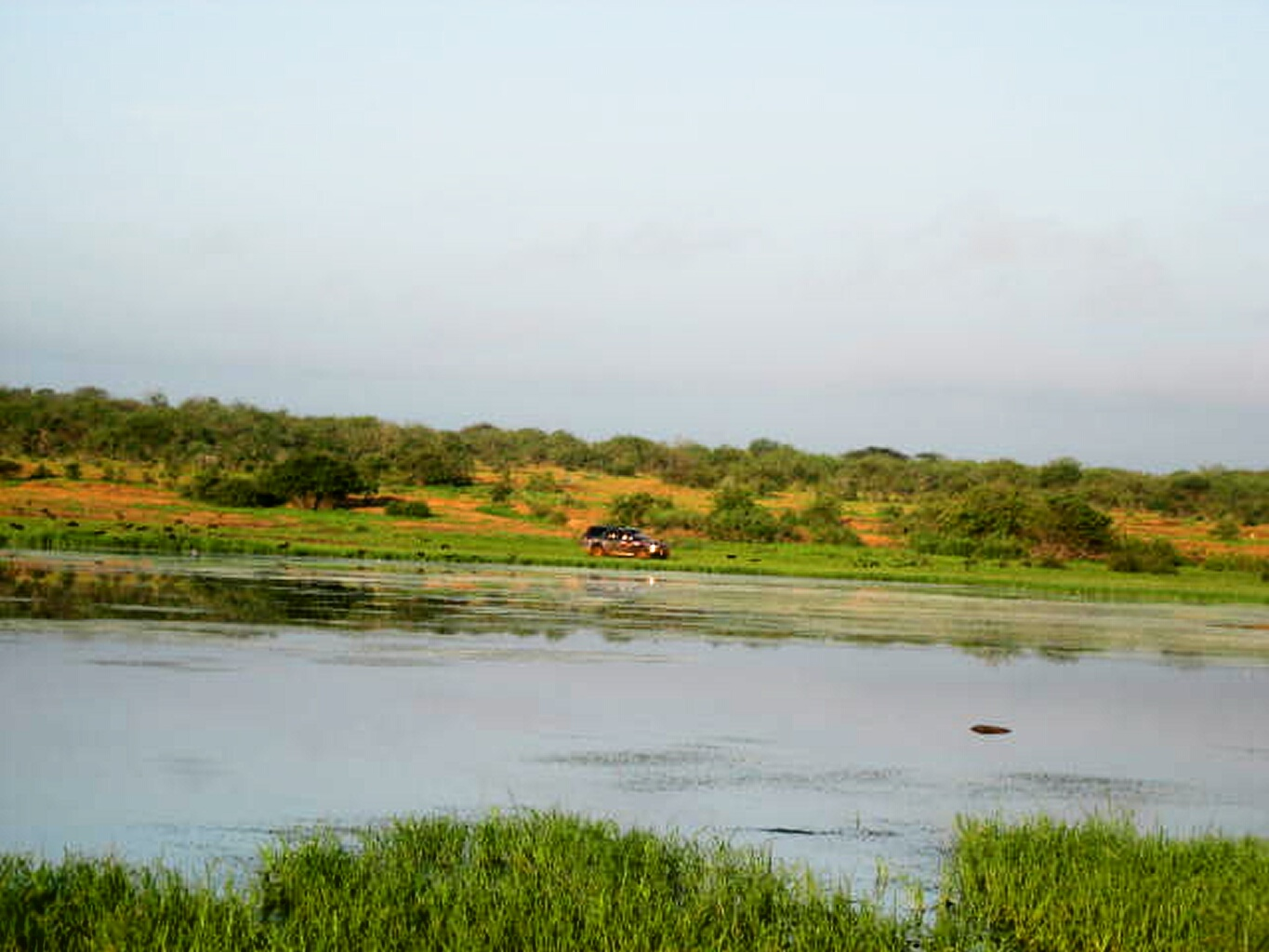 Dhadhaable Water Hole- near Ceel Gaduud